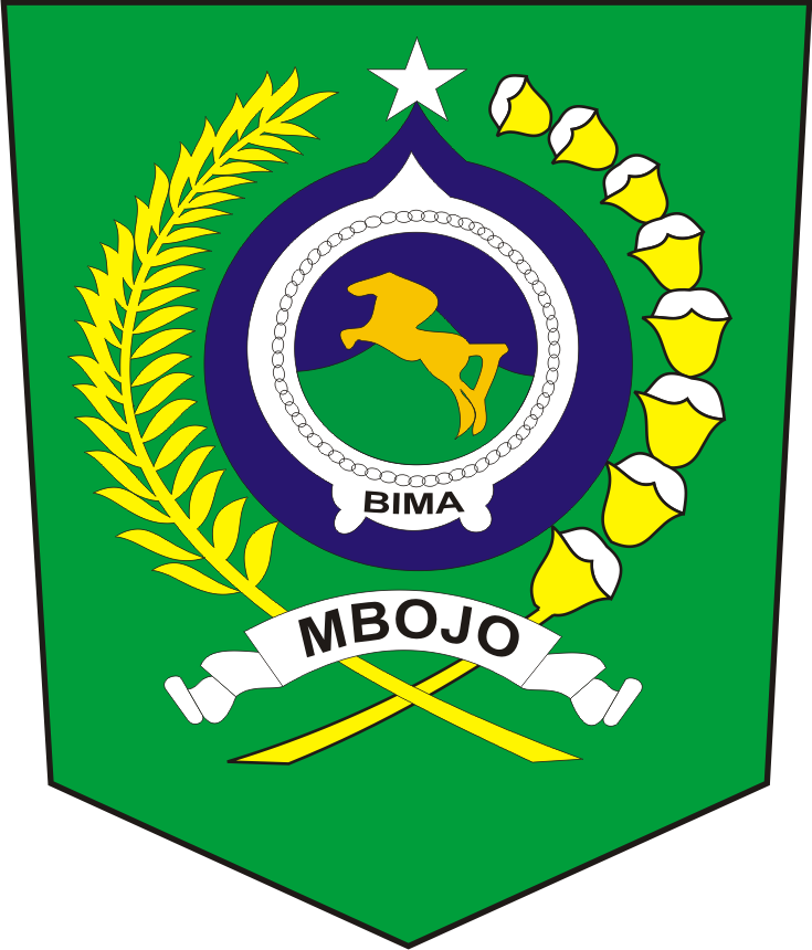 Coat of Arms (Lambang) of Regency (Kabupaten) Bima, Provinsi Nusa Tenggara Barat (West Lesser Sunda Islands Province), Indonesia